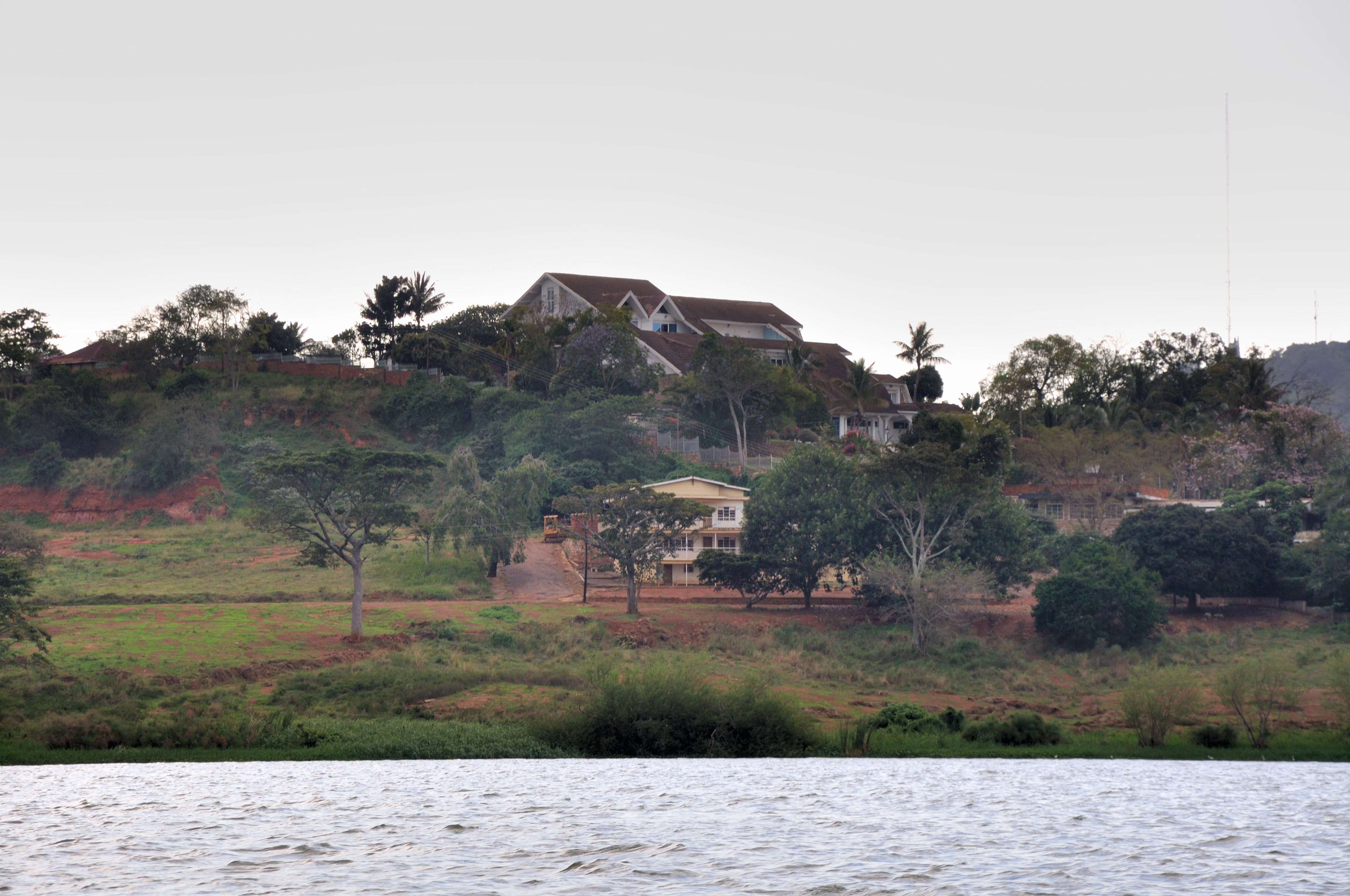 Uganda, Residence of former ruler Idi Amin